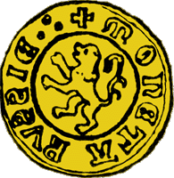 Coins of Louis I of Poland and Hungary "MONETA RUSSIE"